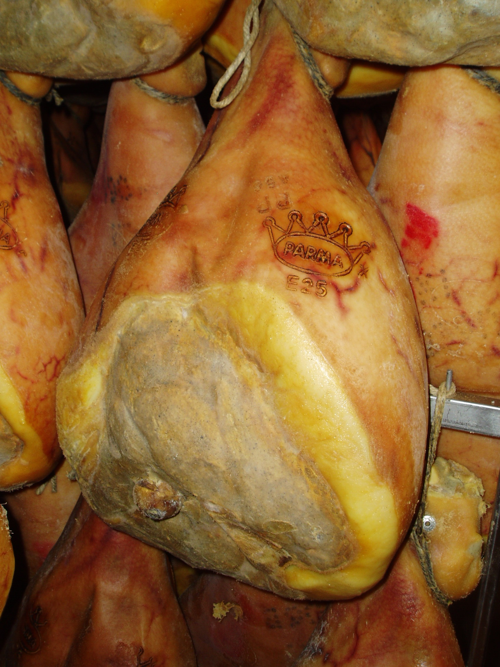 Prosciutto di Parma, ham producing